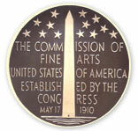 The seal of the United States Commission of Fine Arts, in 2012.